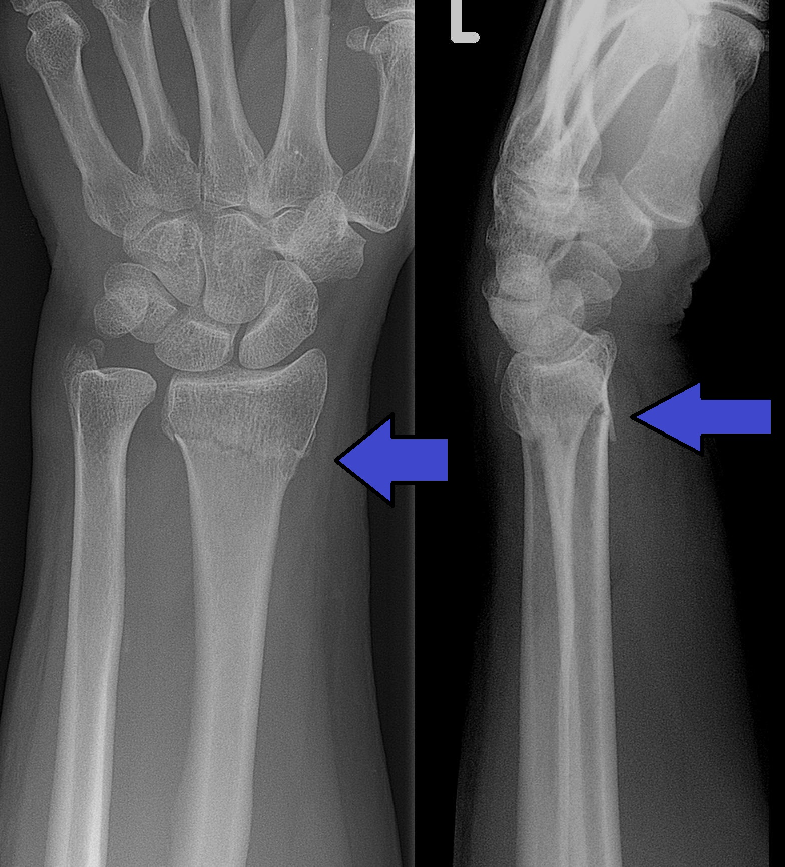 X-ray of a collesfracture of the left wrist accompanied by an ulnar styloid fracture.